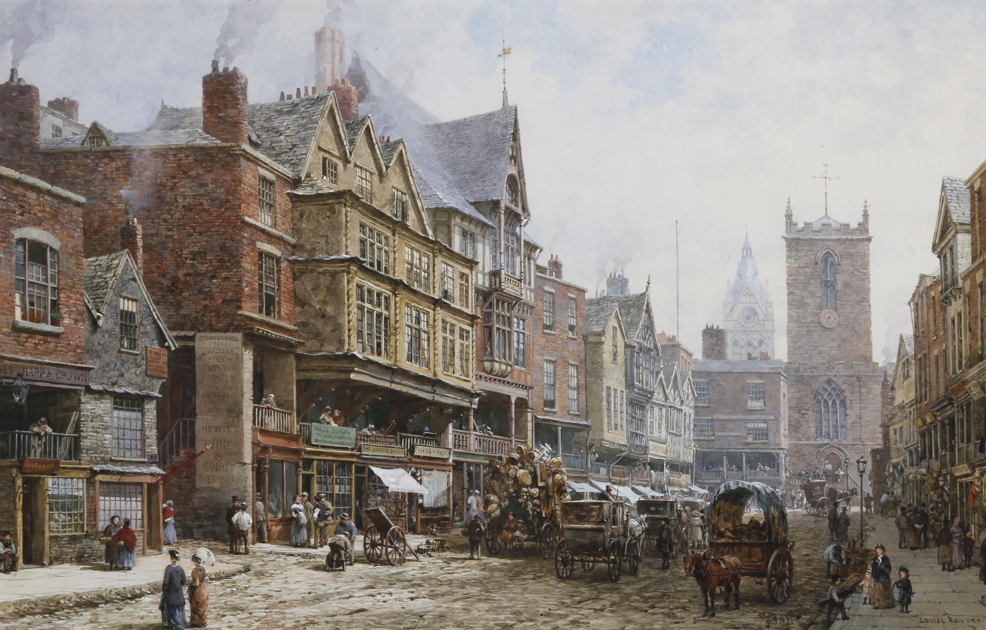 Bridge Street, Chester, looking north towards the Cross and St. Peter's Church. On the left "The Dutch Houses". Signed 'Louise Rayner', dated July 1877; watercolour 37.5 x 58 cm